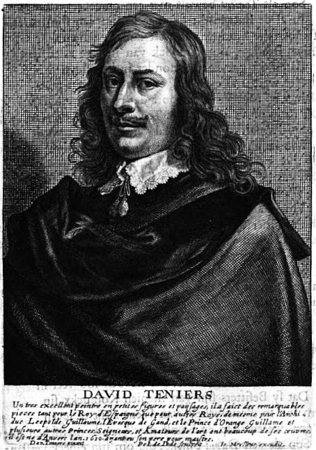 Portrait of David Teniers (II) in Cornelis de Bie's Gulden Cabinet.